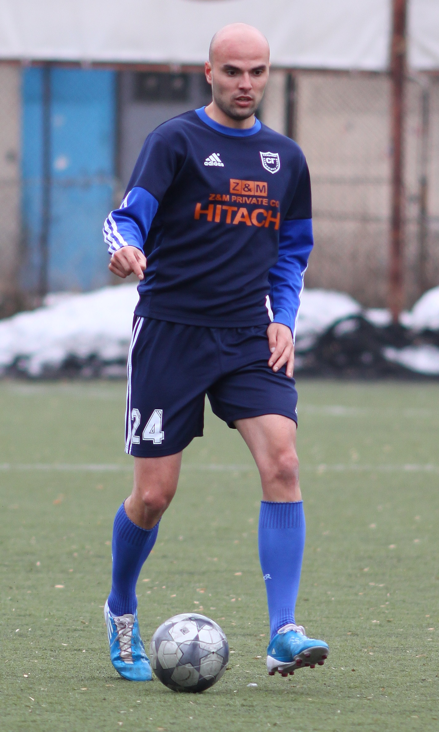 Trajan Trayanov - Bulgarian footballer, defender